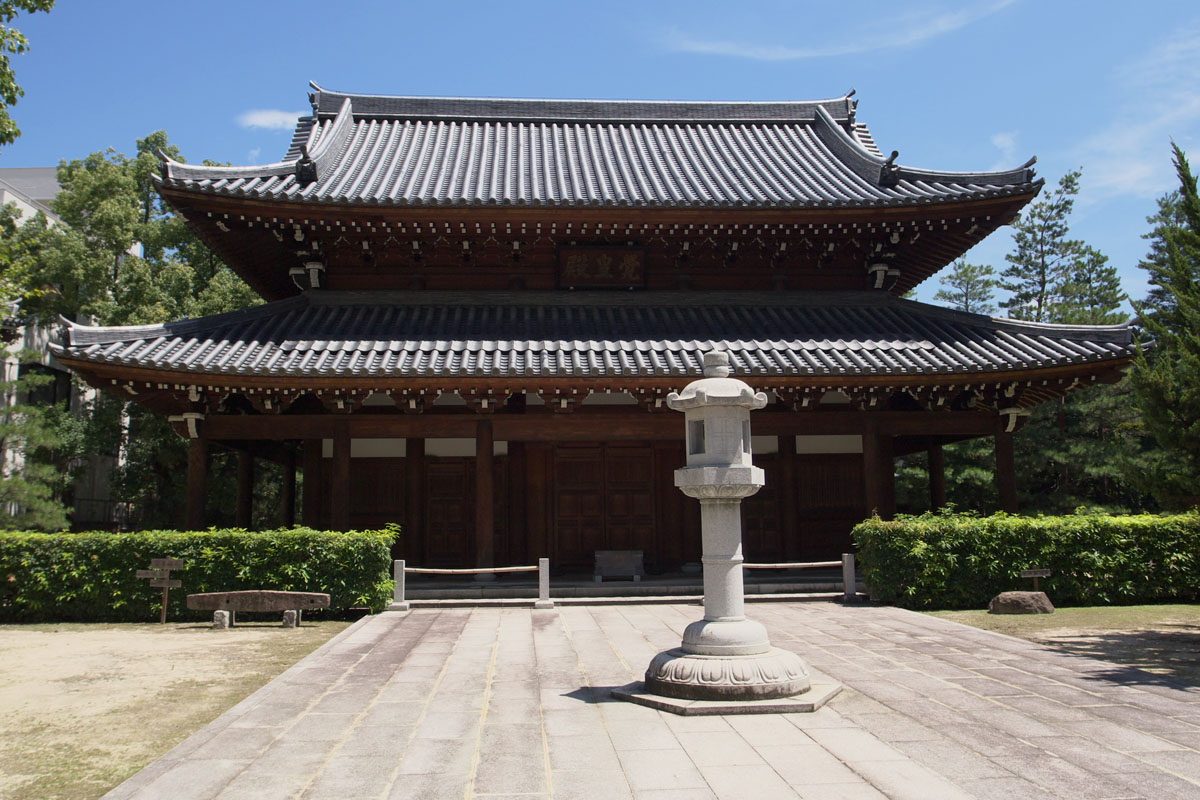 Jotenji temple, in Fukuoka city, Japan.